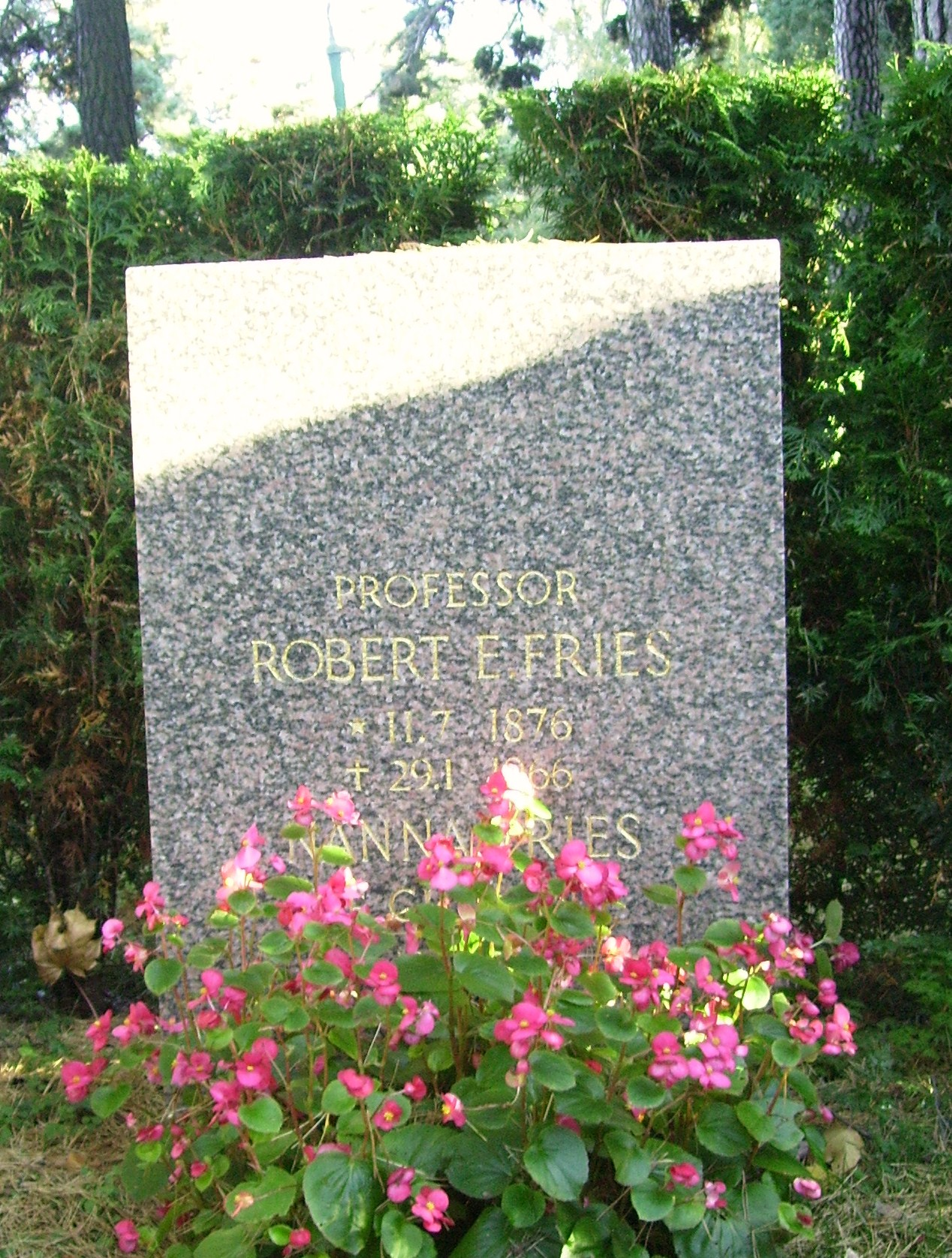 Picture of Robert E. Fries grave at Norra begravningsplatsen in Solna